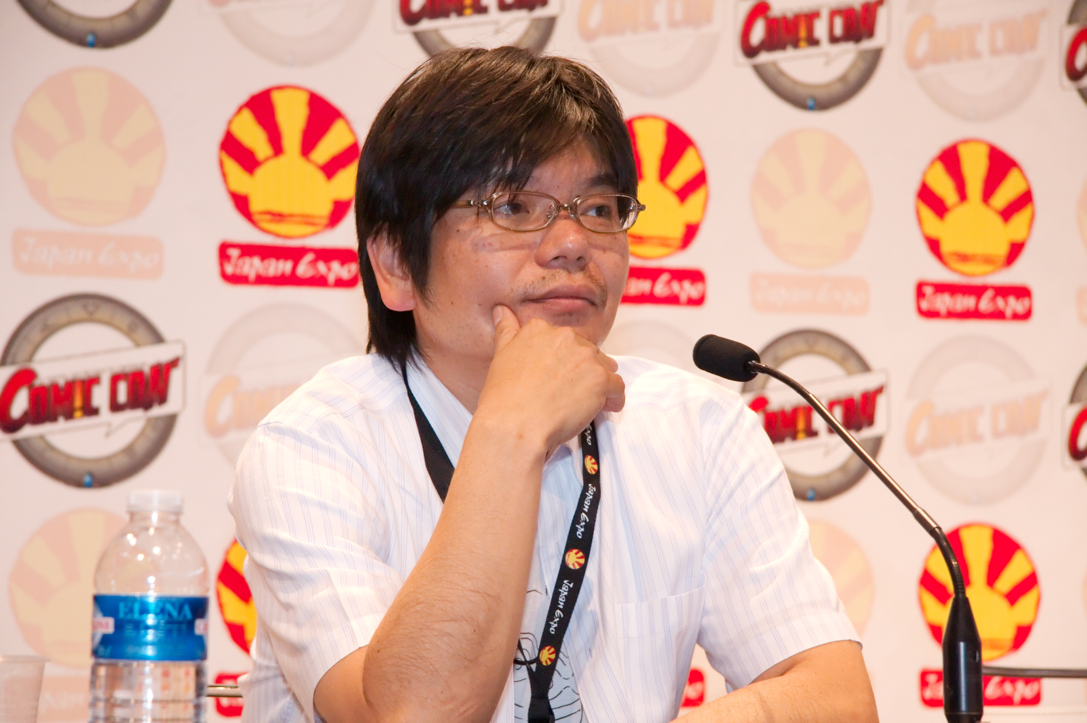 Tomoki Kyoda and Masahiko Minami's lecture at Japan Expo 2009 (Paris, France) for the movie Eureka Seven.